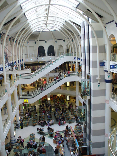 Inside The Peacocks Woking's indoor shopping mall which has the common stores, and adjacent car parks, cinema and theatre.